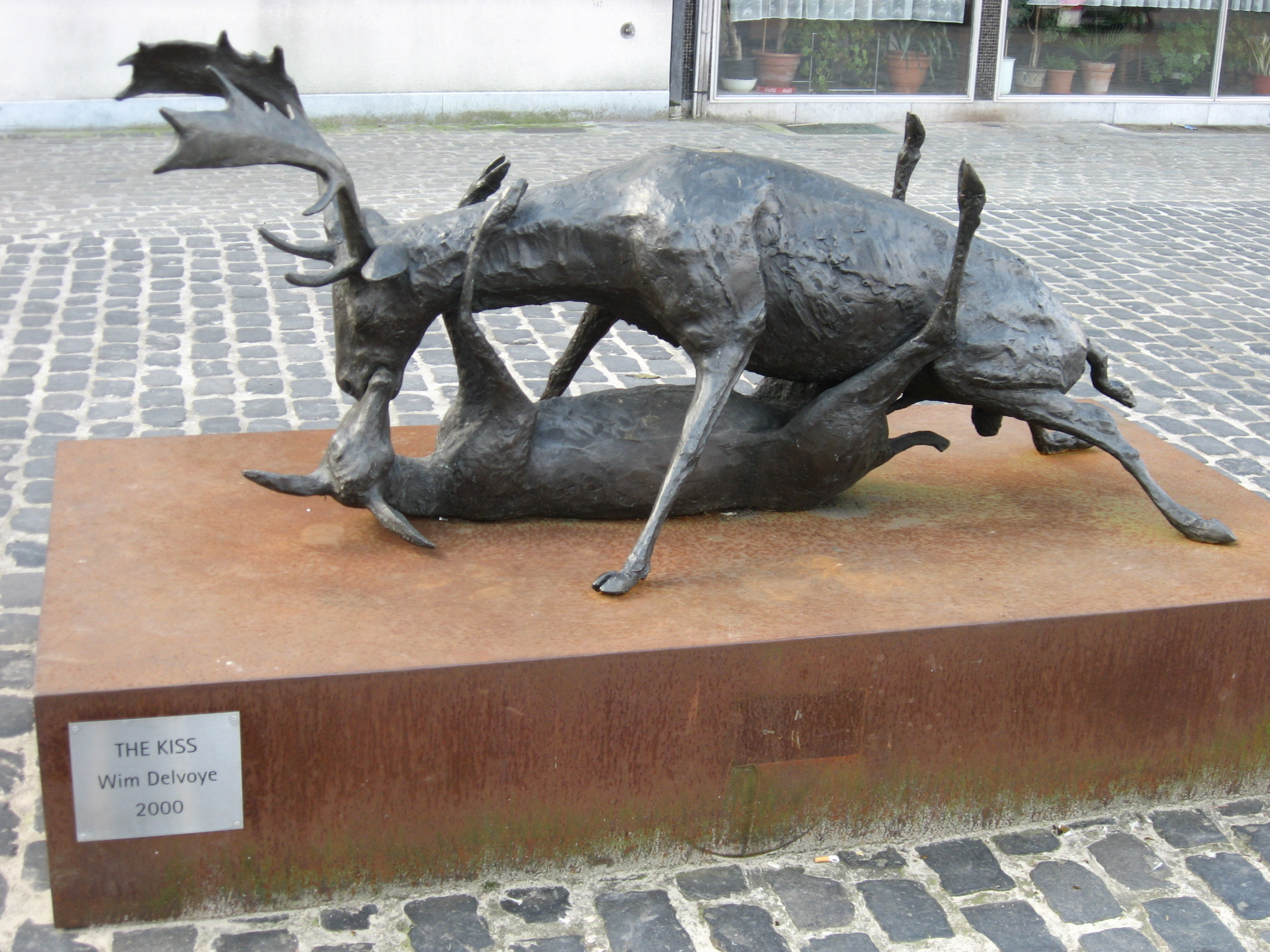 Animals with a human brain.